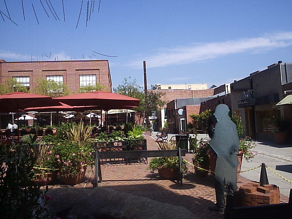 Old Town Pasadena